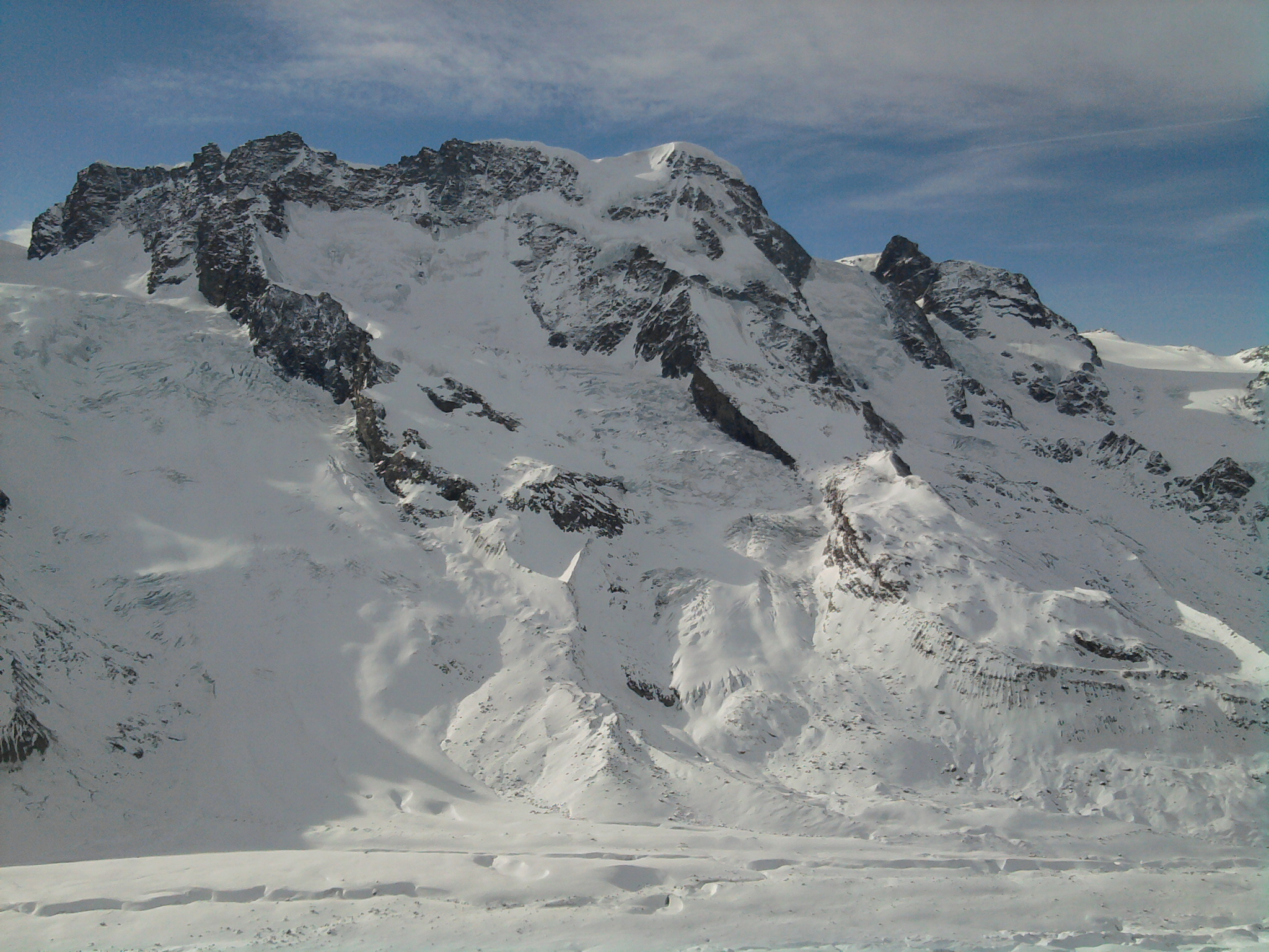 Breithorn 4164m